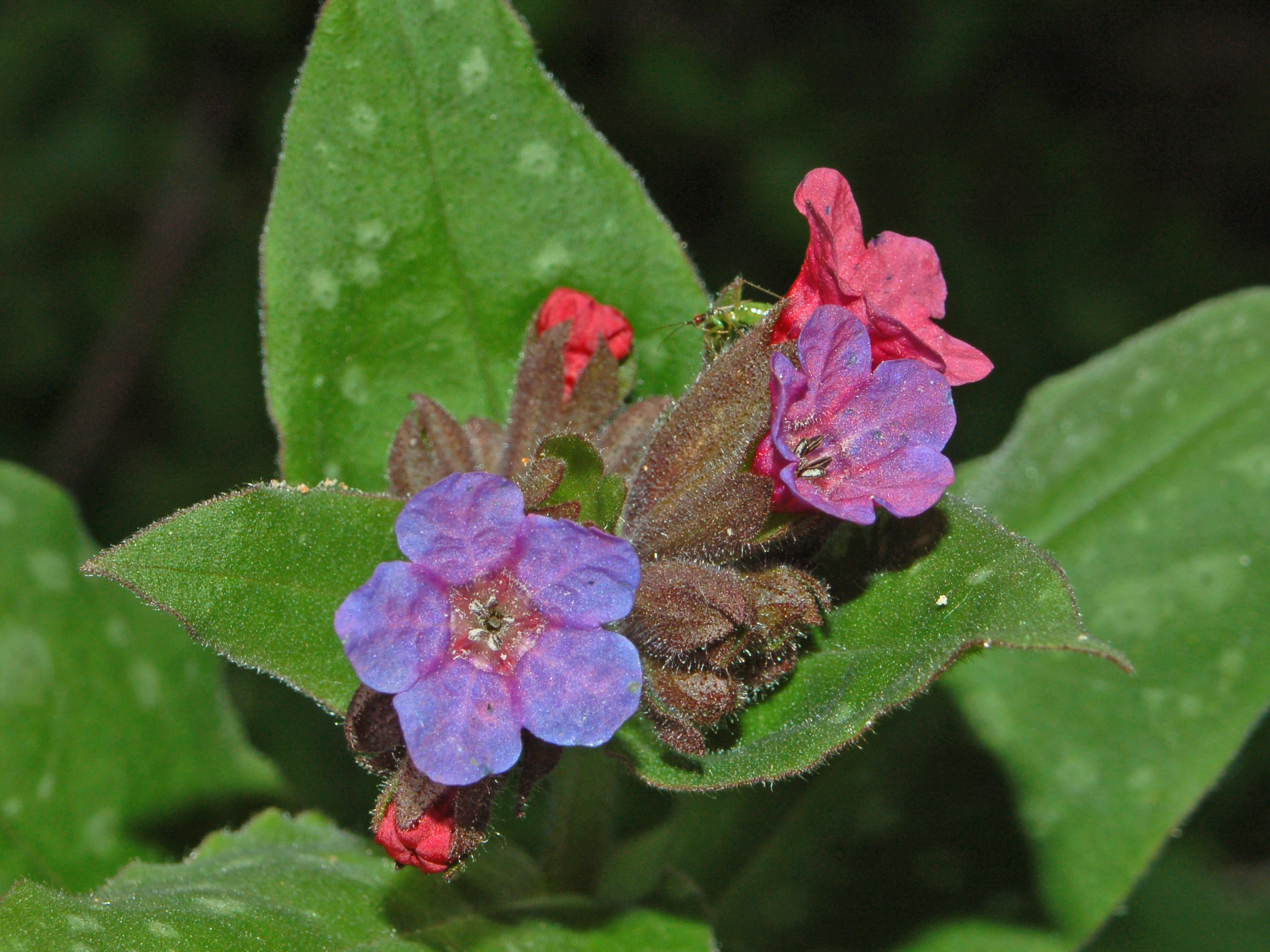 Pulmonaria officinalis - Pian dei Grilli, Genova, Italy